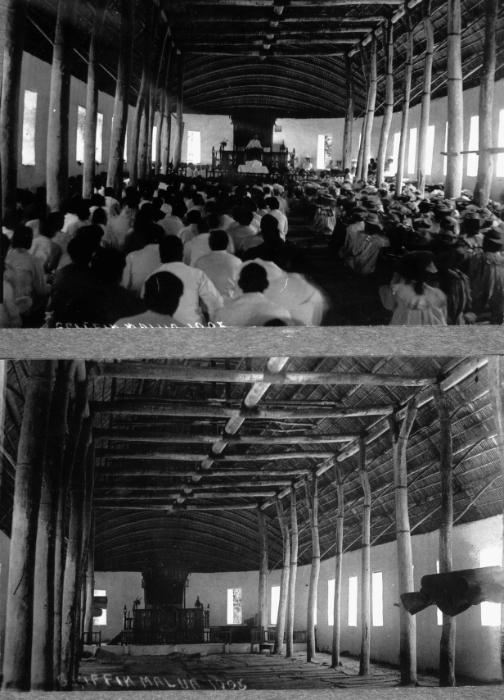 Interior of a Christian church in Malua village, 1905. The interior shows wooden beams and posts of traditional Samoan architecture within a European style building.